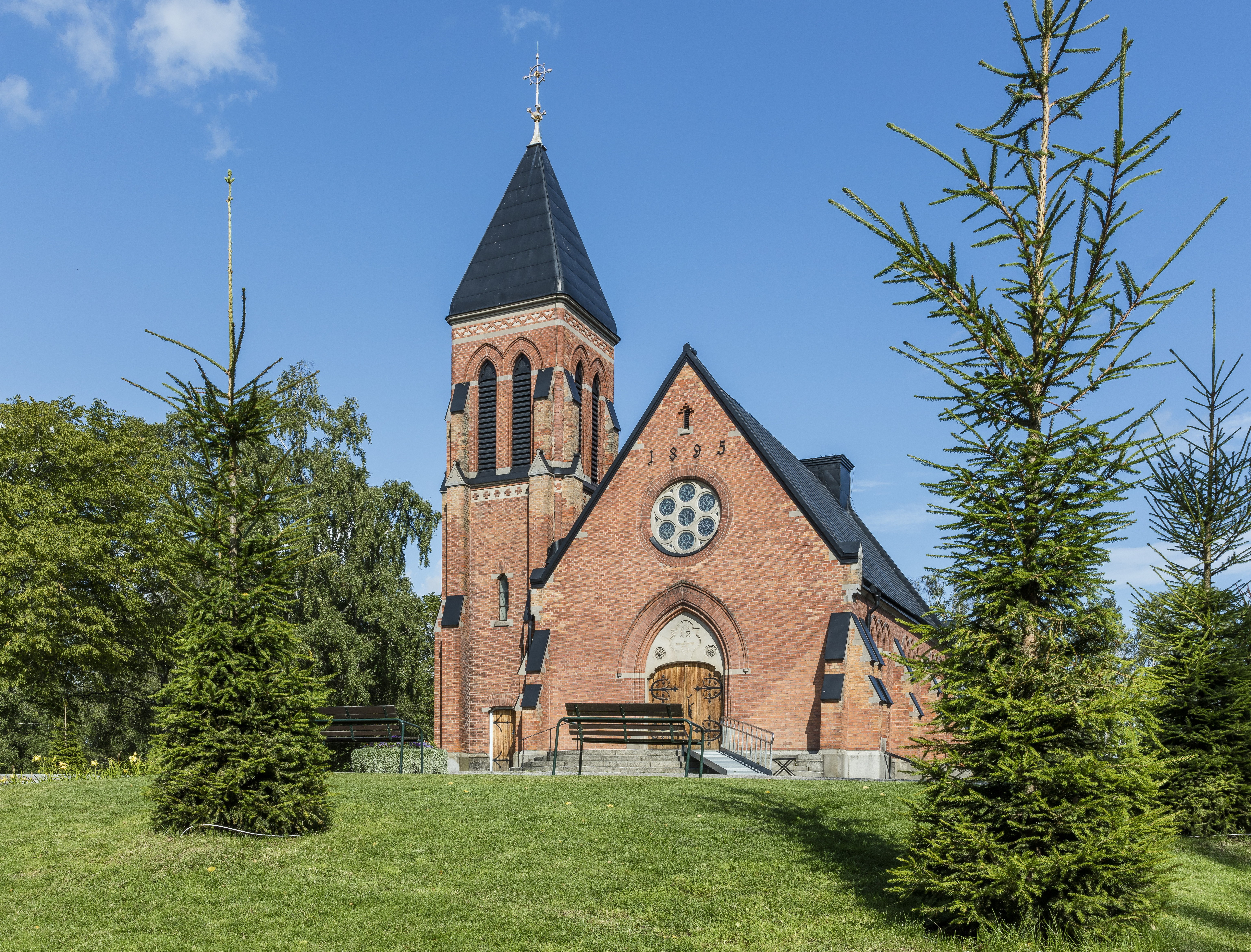 FOTOGRAFISandsborgs kapell i augusti 2019. -FOTOGRAF: Ek, Mattias.BILDNUMMER:Stadsmuseet i Stockholm